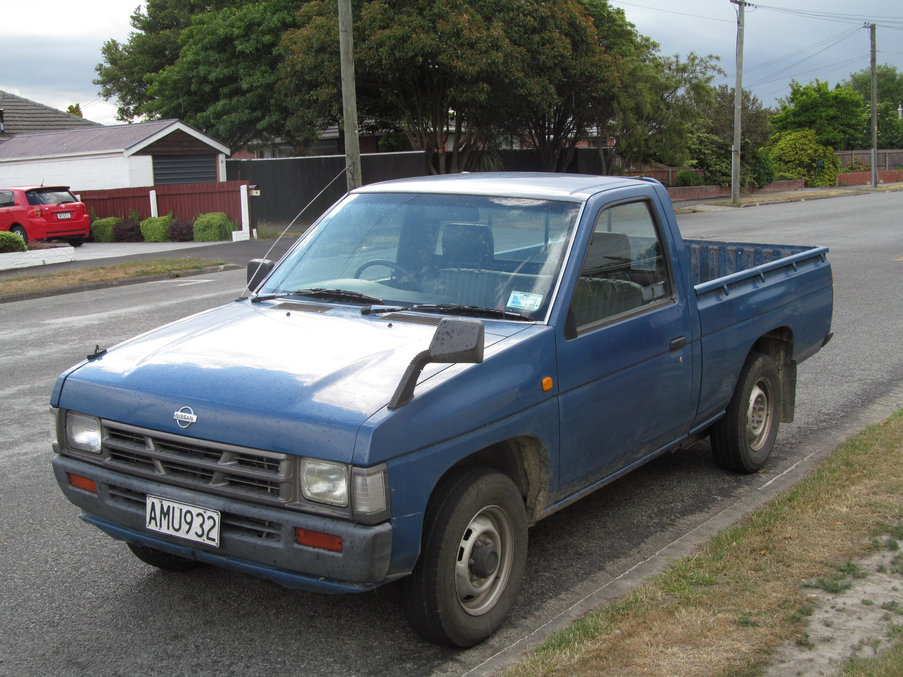 1996 Nissan Datsun (GA-QD21, imported to NZ from Japan on 17 April 2002). VIN number 7A8DH2W0802440068, chassis QD21-440068, engine 1998cc NA20 petrol.